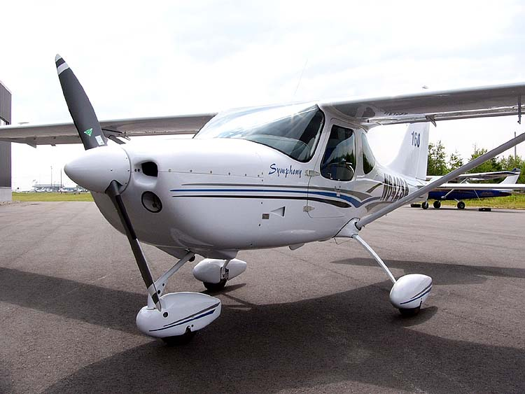 Photo of a Symphony Aircraft SA-160 serial number 005 taken in August 2005